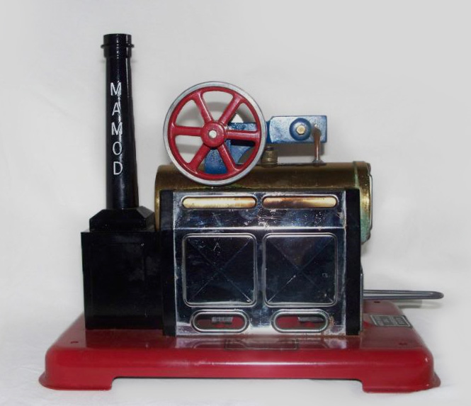 A Mamod SP2 engine. Permission granted by to upload this image.